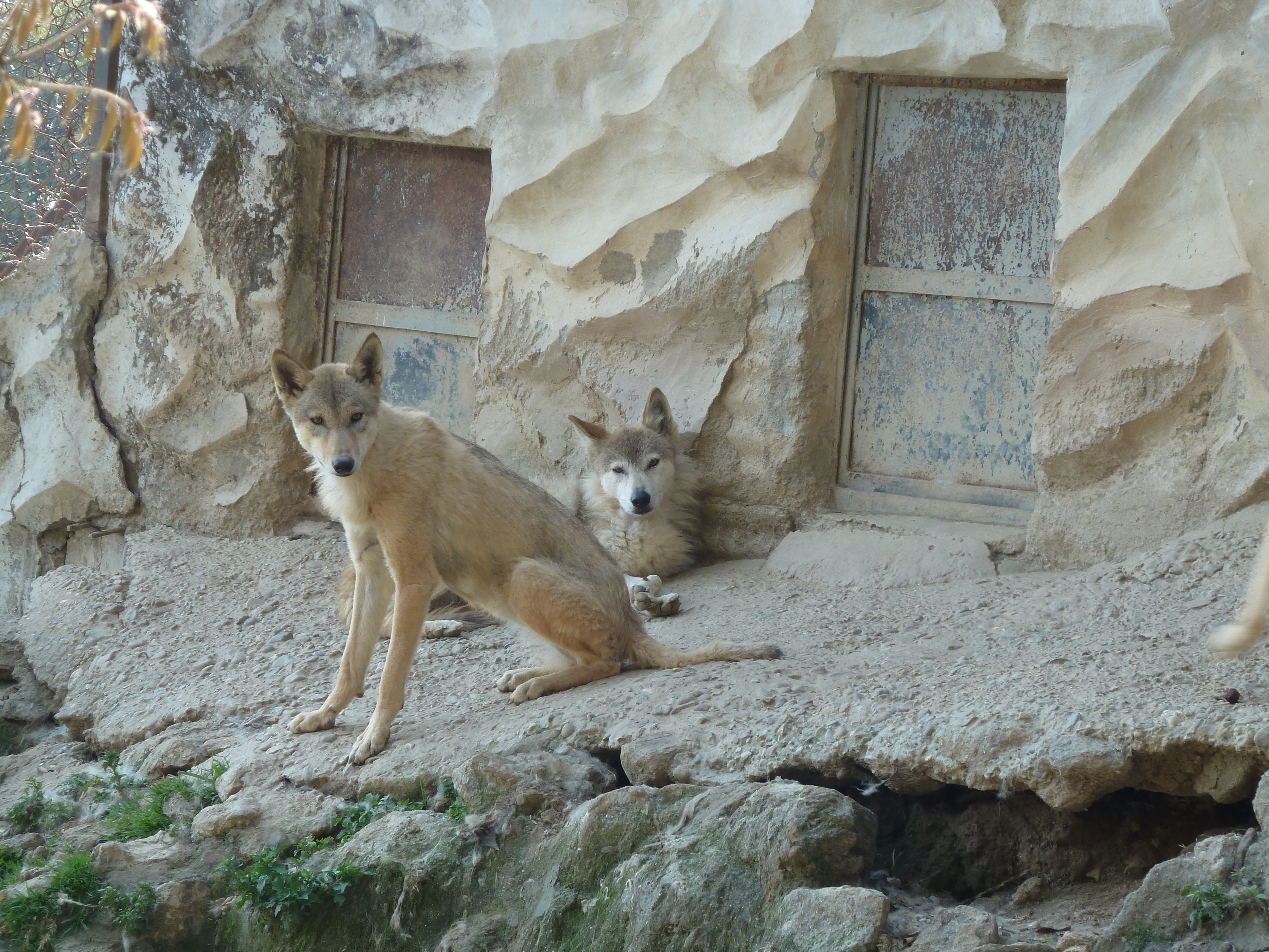 Commonly known as Himalayan Wolf. The photo is taken at Padmaja Naidu Himalayan zoological park